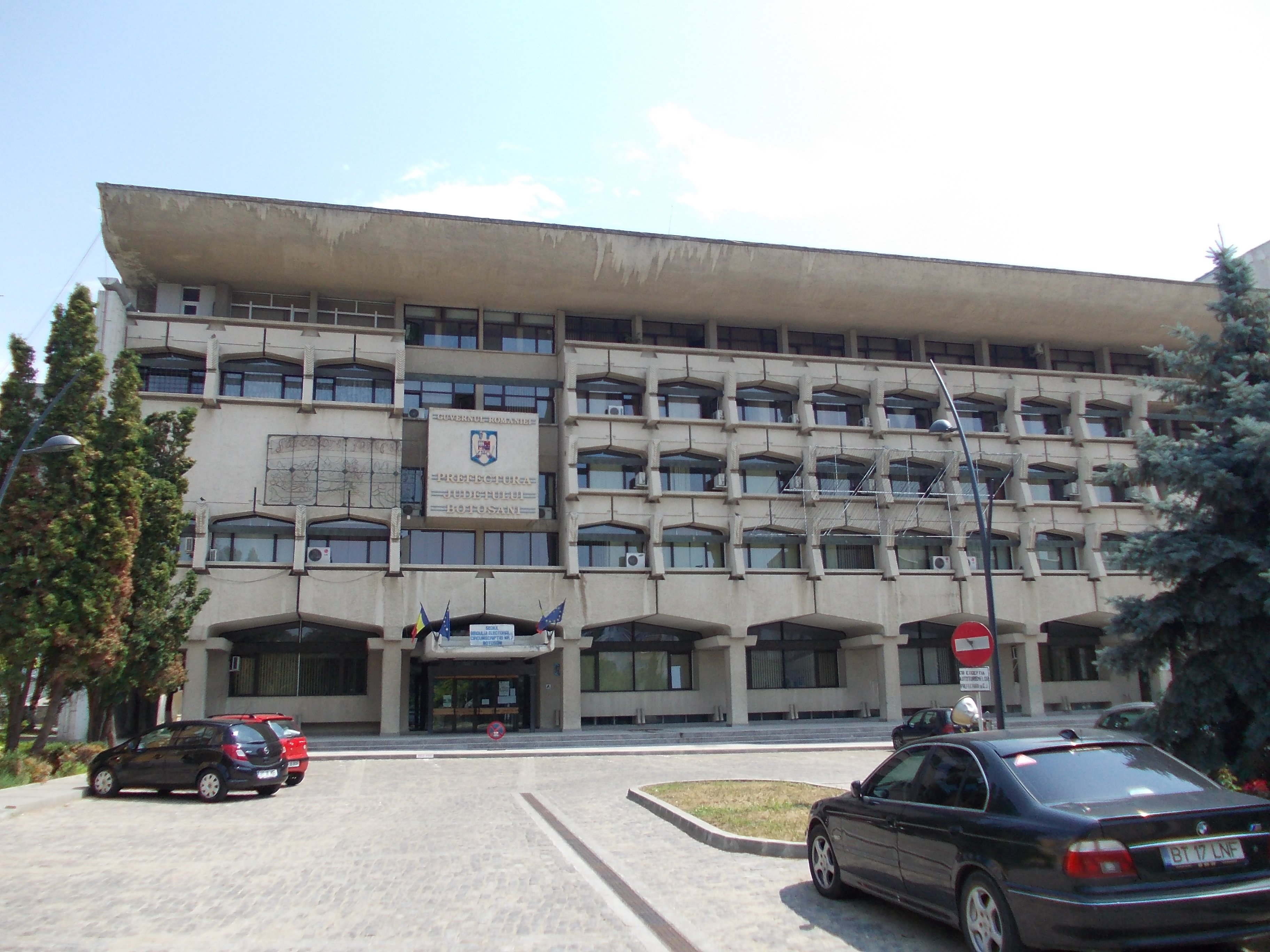 Brutalist style concrete communist era government building in Botoșani, Romania.